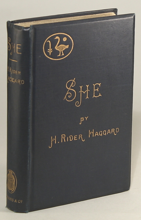 SHE: A History of Adventure (1st Edition Cover, 1887), by Sir. H. Rider Haggard